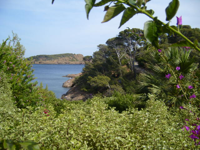 view of the Parc du Mugel, in La Ciotat, Provence, France.